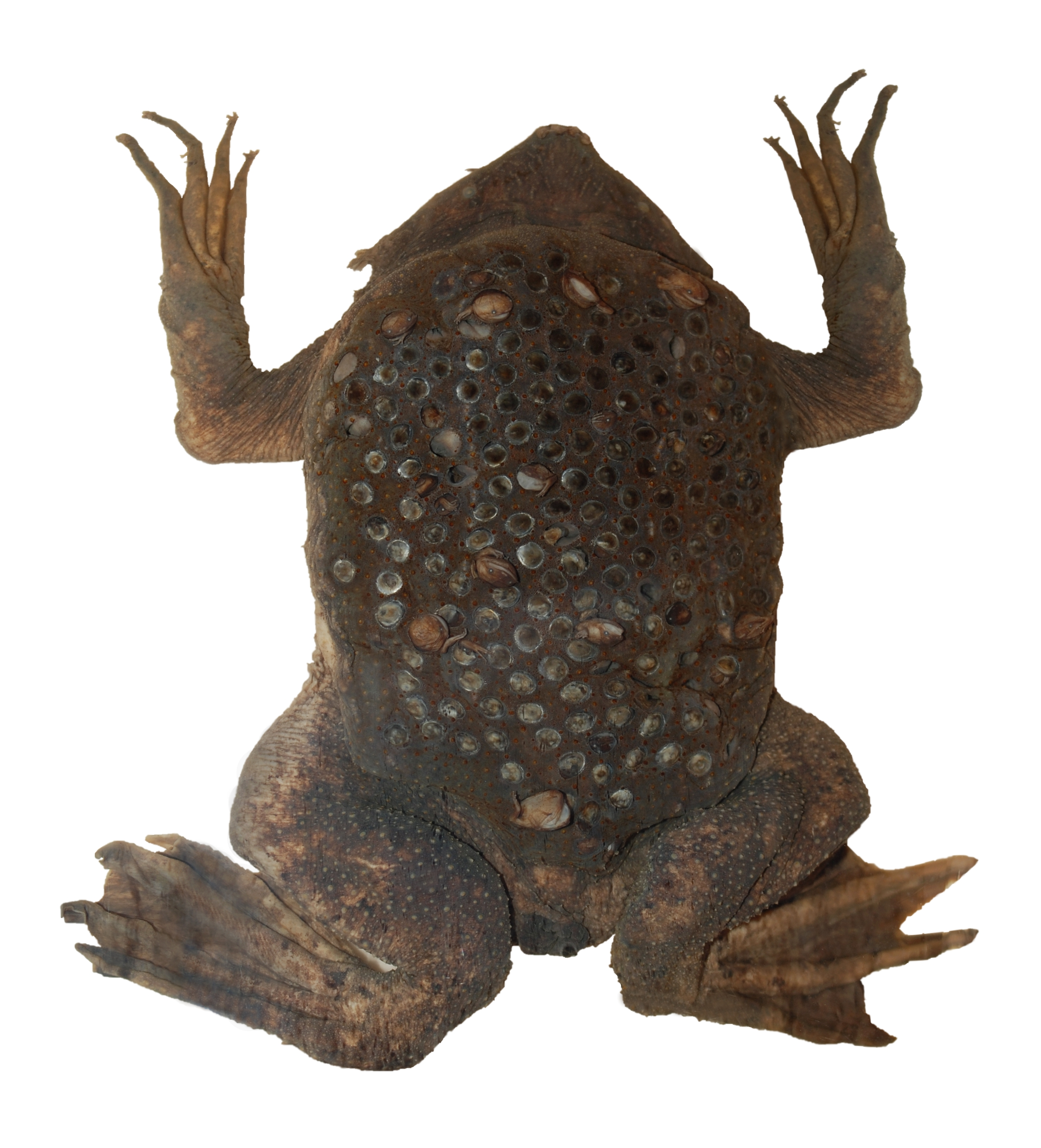 A female surinam toad (Pipa pipa) in the Natural History Museum of Vienna. The object was conservated in a glass filled with a special conservation liquid; because of the difficult light situation I had to edit the image strongly.